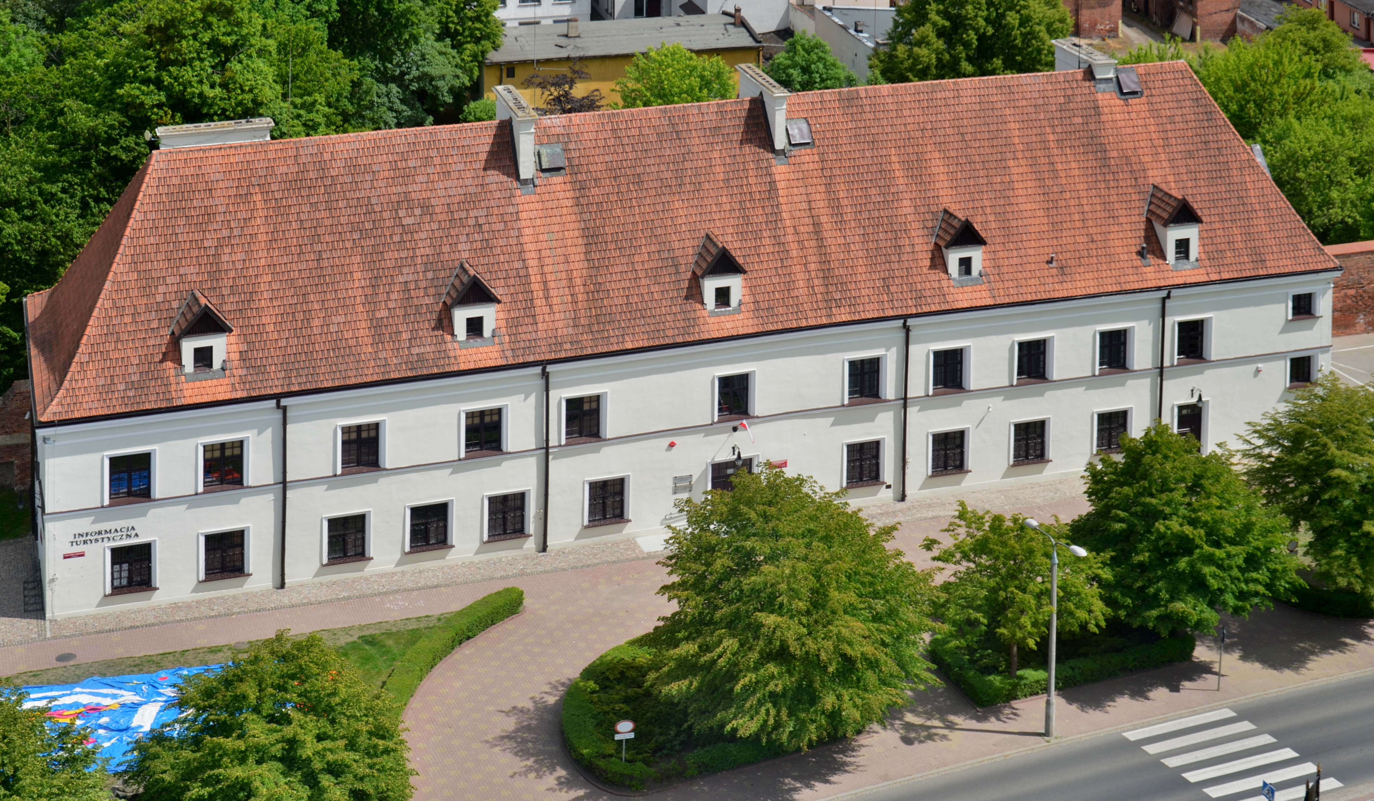 Renaissance palace of Anna Vasa in Brodnica